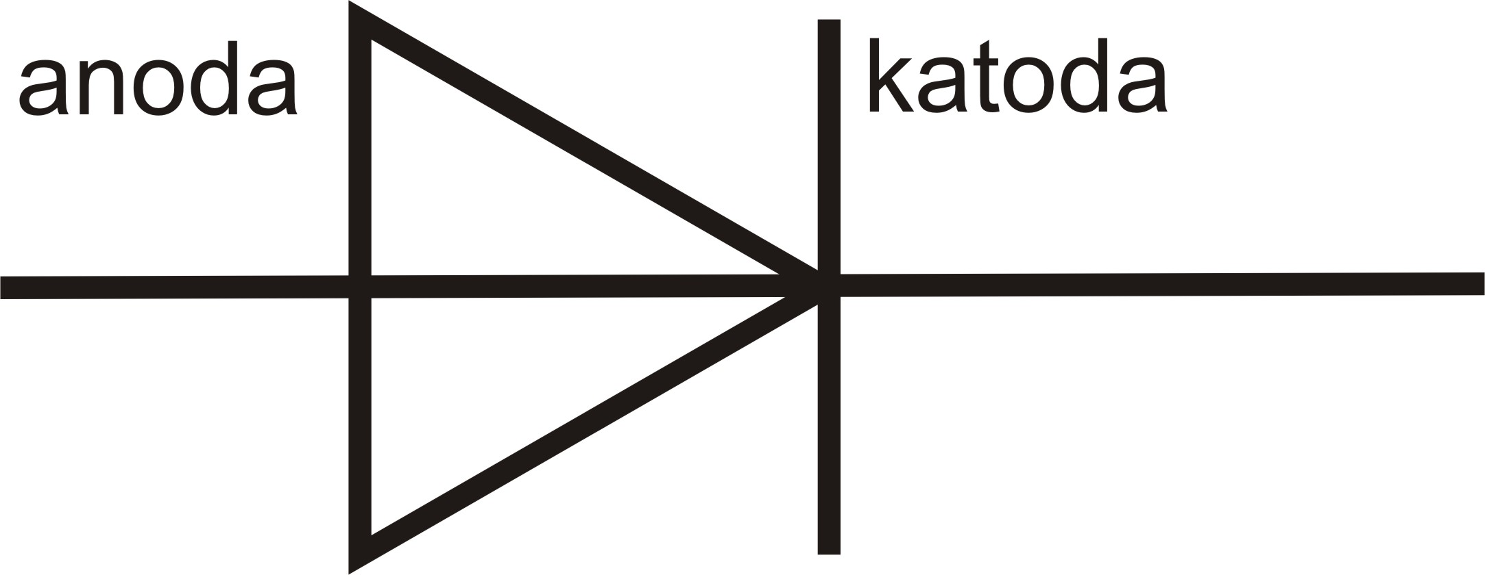 A diode symbol with description in Czech